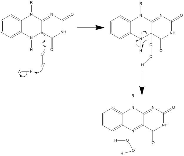 FAD Radical Reaction